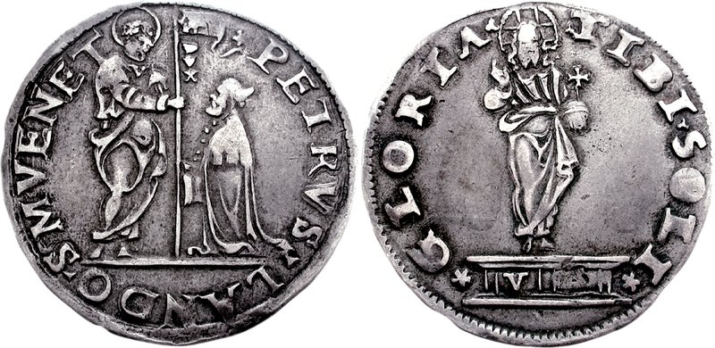 Italy, Venice. Pietro Lando. 1538-1545. AR Mocenigo (6.25 g, 8h). Vettor Salamon, mintmaster. Struck January-September 1539. St. Mark standing right, handing banner to kneeling Doge Christ standing facing on low basis inscribed V S, raising hand in benediction and holding Gospels. CNI VII 29; Papadopoli 20; Paolucci 5. VF, toned.